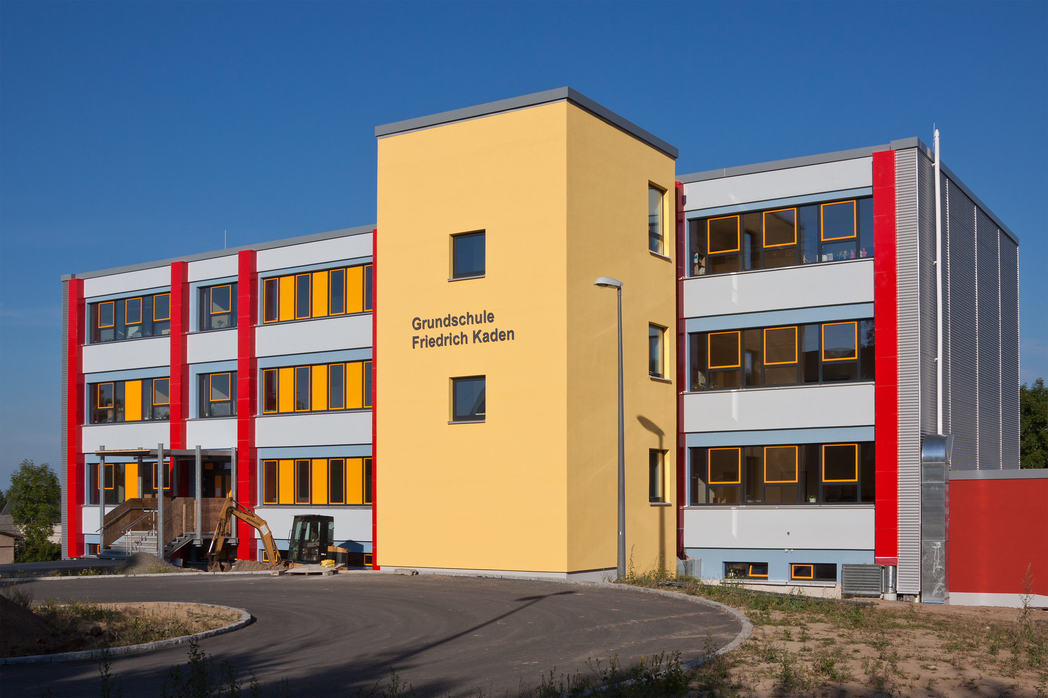 Großschirma, elementary school "Friedrich Kaden"